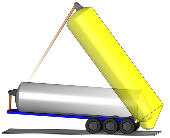 Transport vehicle for powders, etc. Picture has been stored in German Wiki. Borowski, 23rd July 2006 @fhj kjhdsf fytfq ju